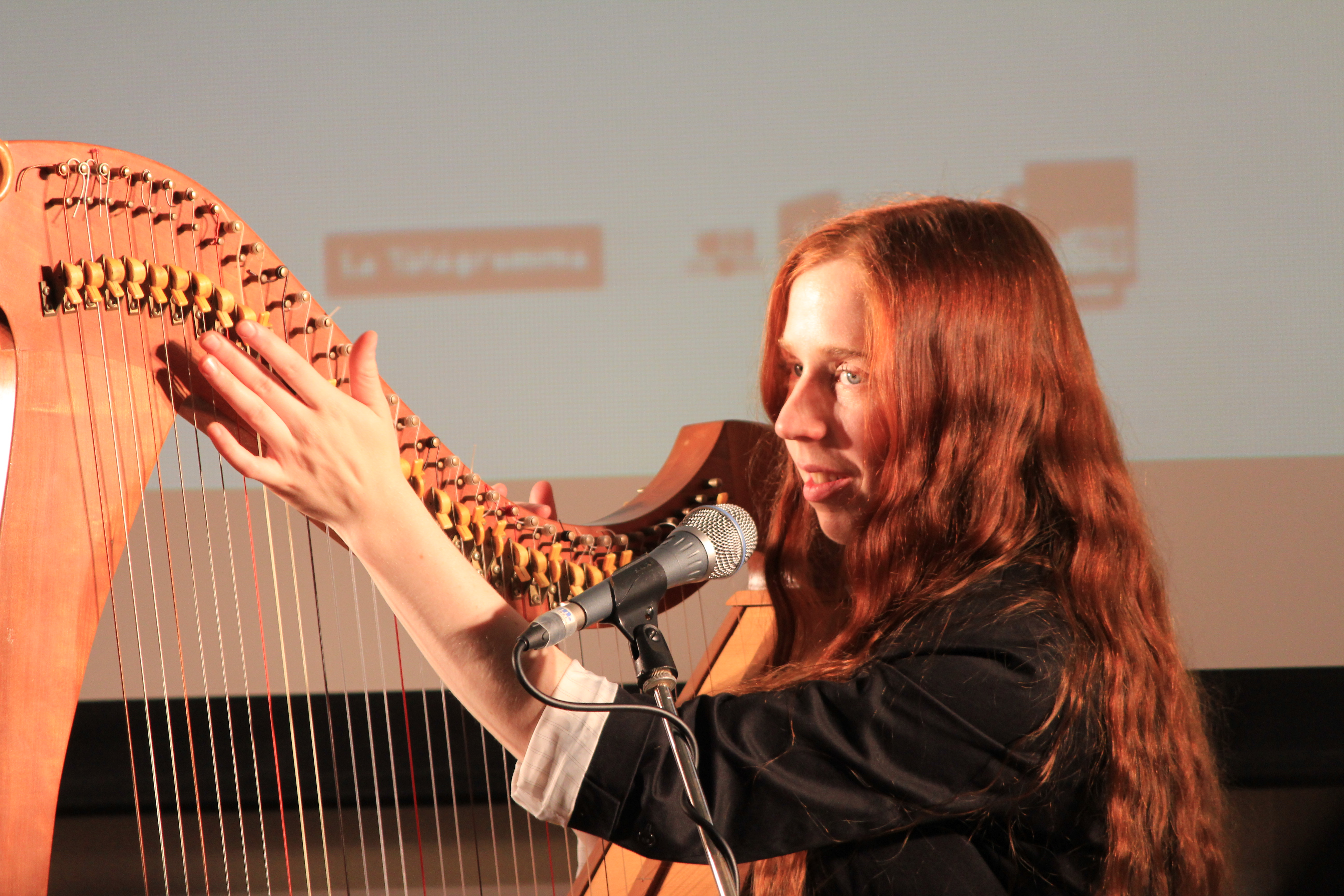 Cécile Corbel during a show held in Tôkyô for the St-Yves 2010